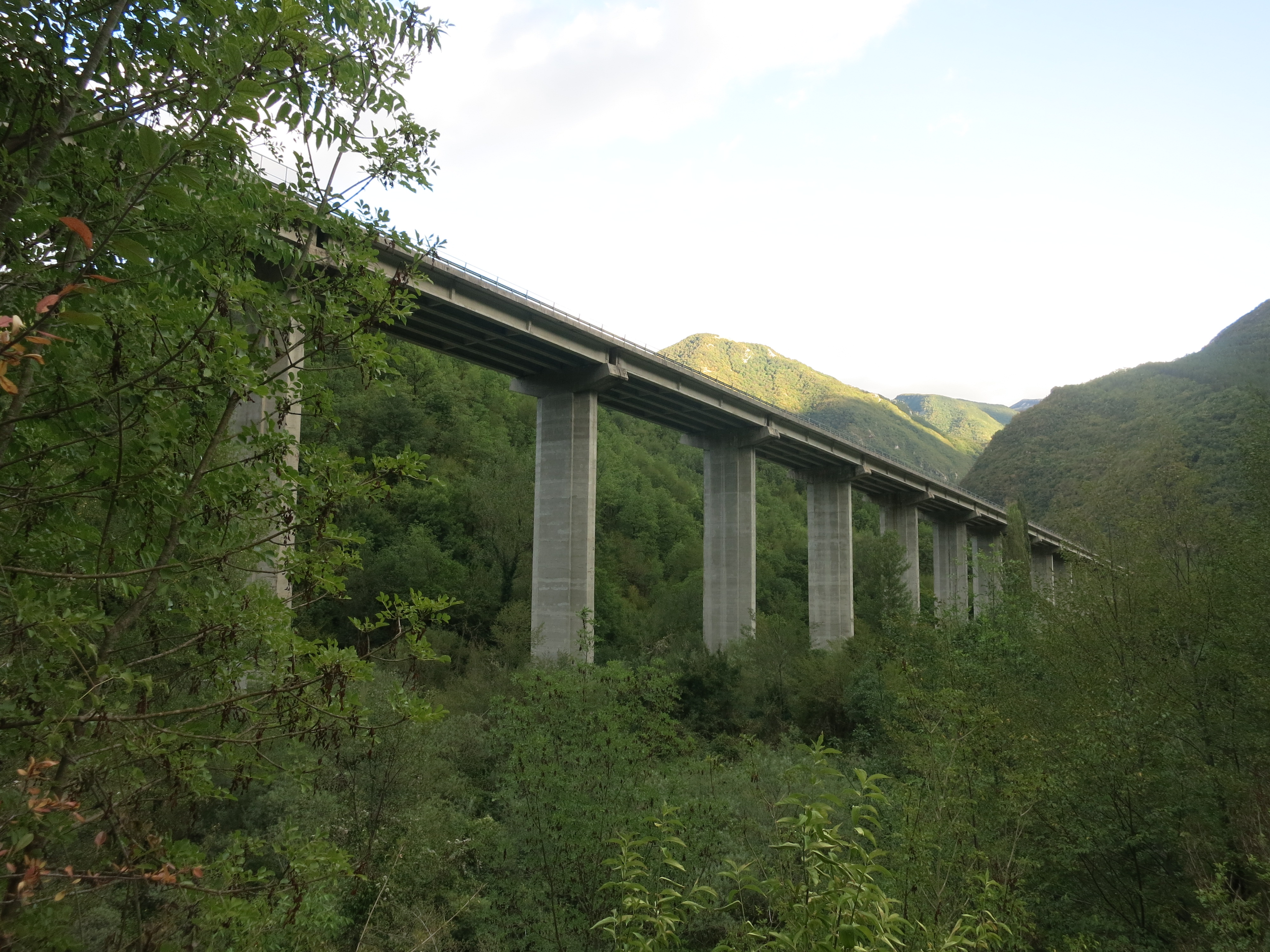 The Velino viaduct, 1120 metres long, located between the kilometre 105,5 and 107,6 of Italian State Highway 4 "Via Salaria" (between the villages of Micigliano and Posta, in the province of Rieti). Picture taken from the local road to the village of Sigillo, which passes under the viaduct.